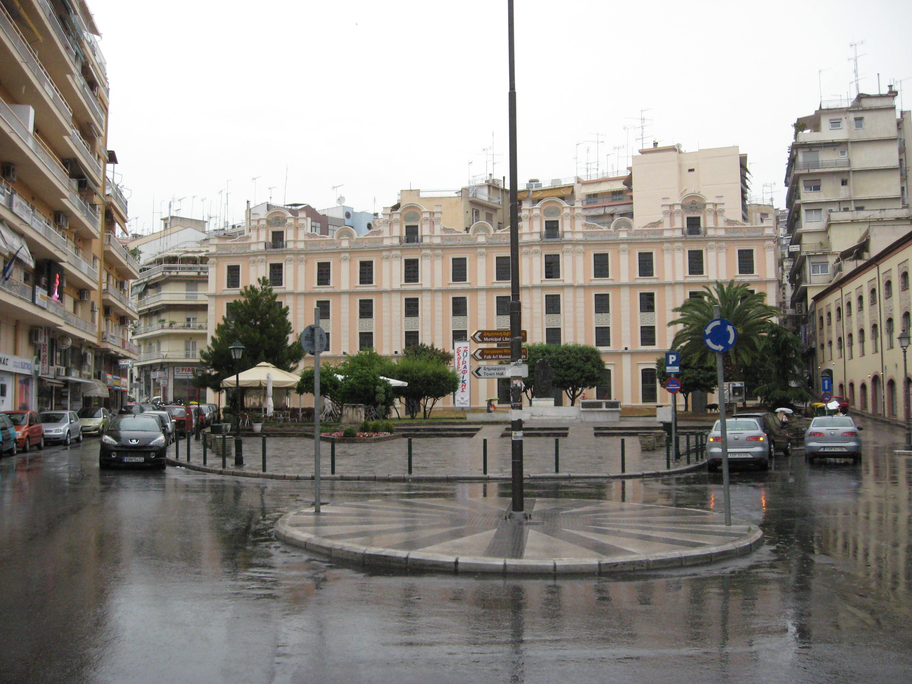 Kapnergati square (Tobacco worker's Square) at the center of Kavala